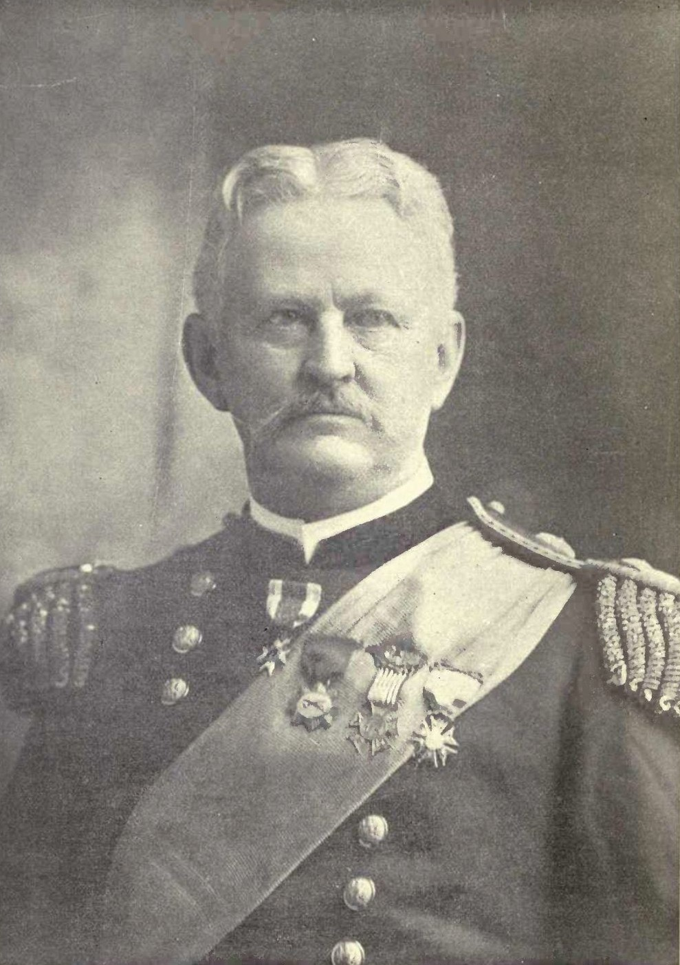 Major General Wesley Merritt from Illustrated Roster of California Volunteer Soliders in the War with Spain (1898)